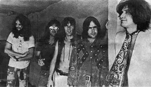 Promotional photograph of The Kinks, taken in 1970. From left to right: John Gosling, Dave Davies, Mick Avory, John Dalton, Ray Davies (the band's lineup 1970–1976, 1978).